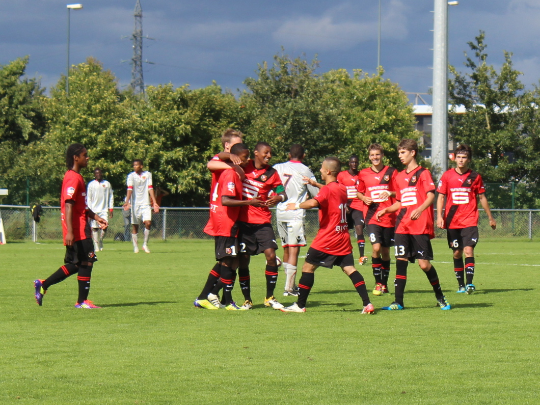 Joie de l'équipe rennaise après le but de Z. Allée. (J1 : Rennes 3 - 1 Le Mans U19)